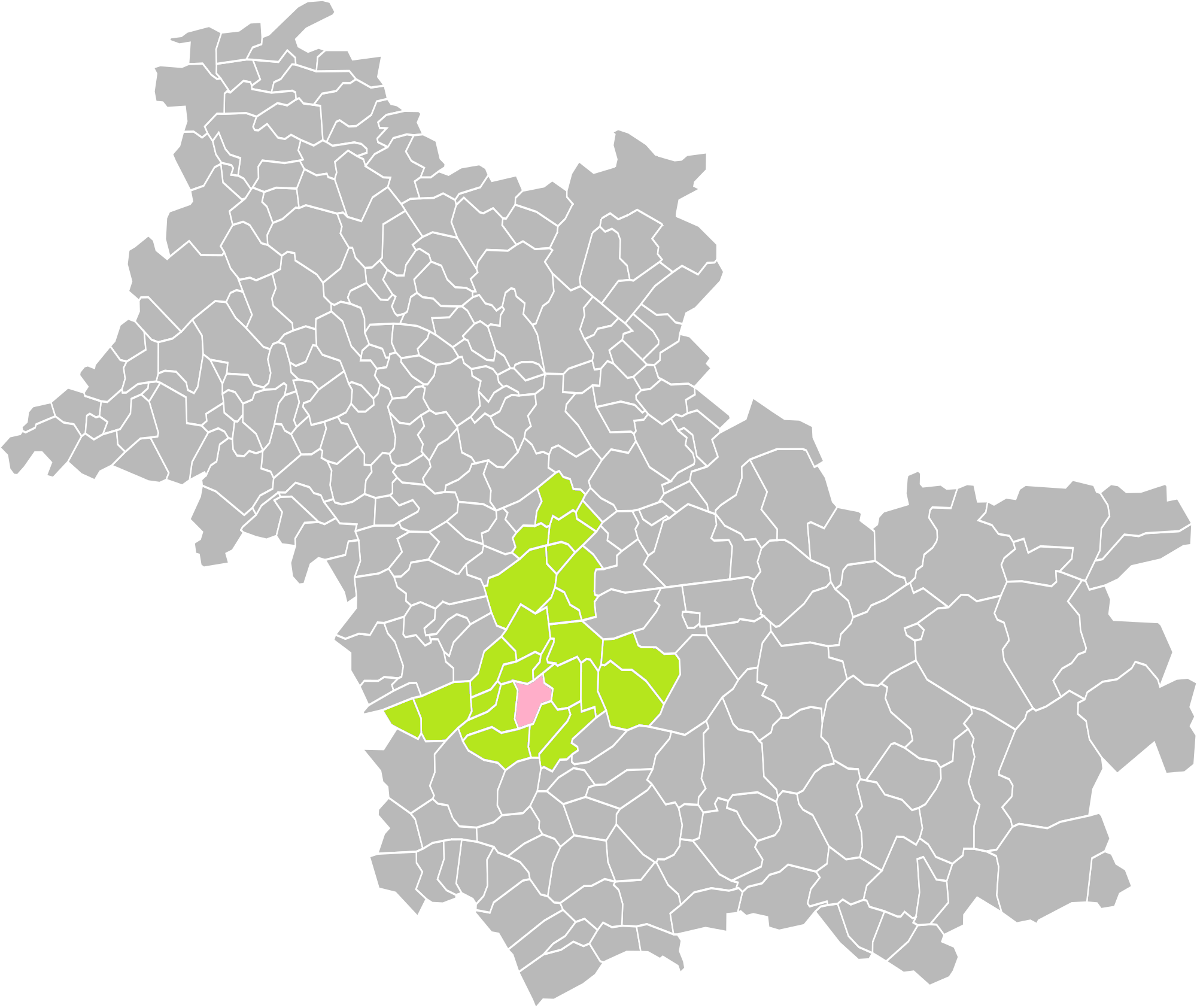 Location of the commune of Ouchamps in the cantons of Blois (I-II-III) et Vineuil (Loir-et-Cher)